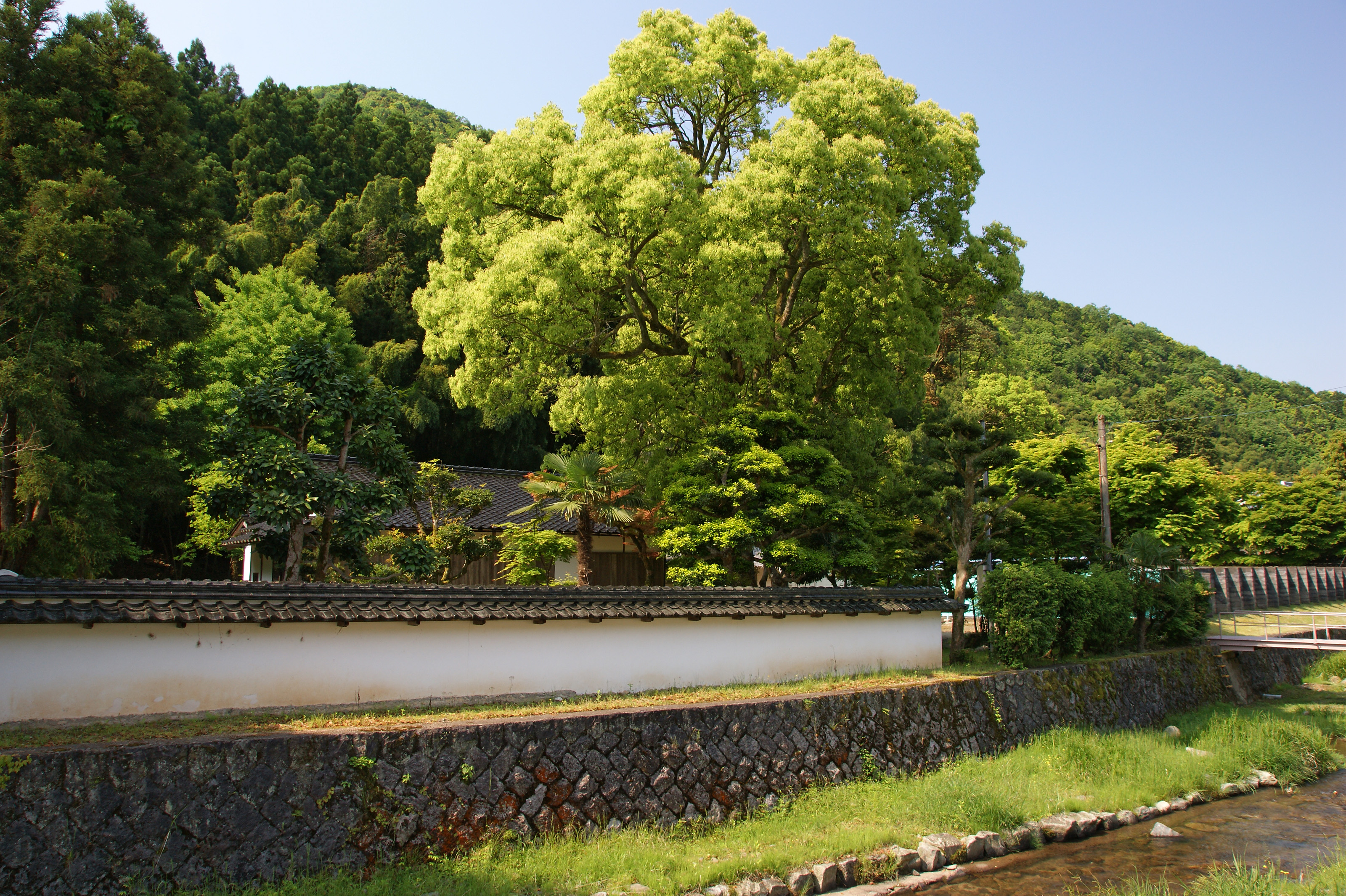 Hiroyuki Kato's Birthplace in Izushi, Toyooka, Hyogo prefecture, Japan